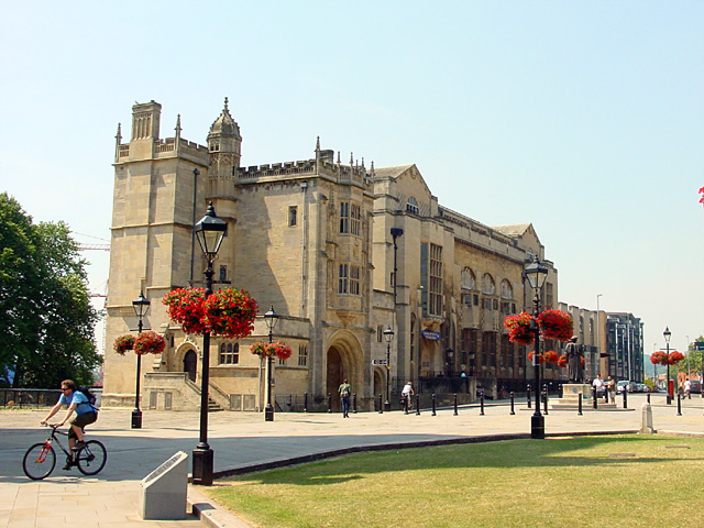 Bristol Central Library The library has just celebrated its centenary. It was designed by Charles Holden and the front facade is different in style to the rear